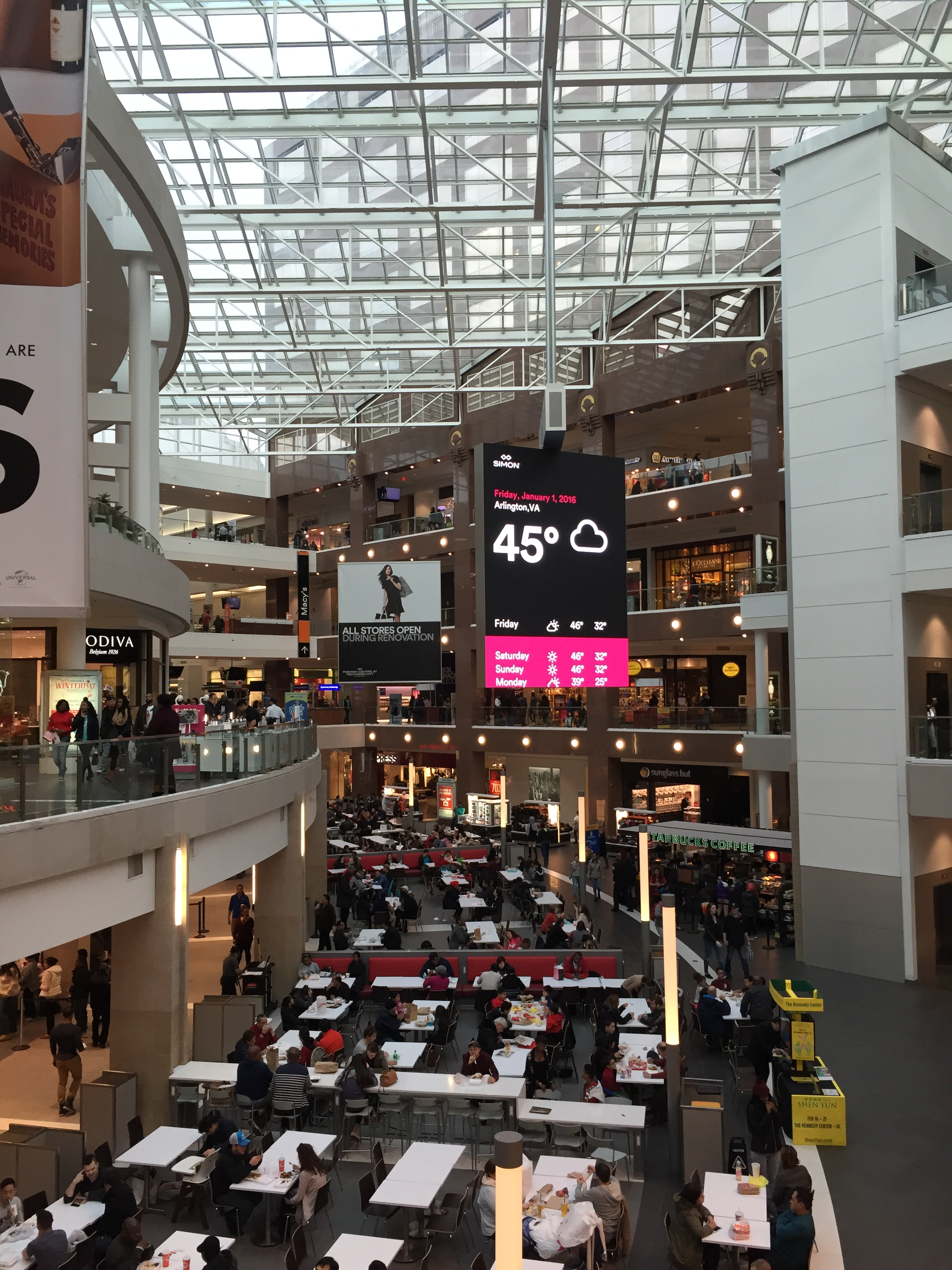 Interior of The Fashion Centre at Pentagon City in Pentagon City, Arlington County, Virginia